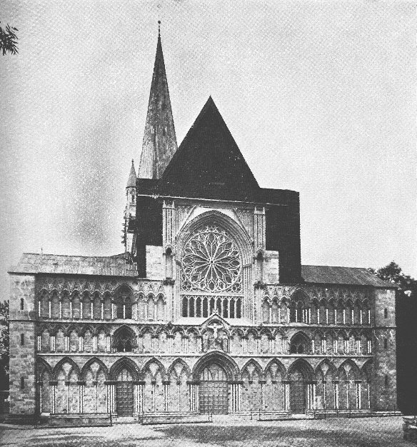 West front of Nidaros Cathedral, Trondheim, Norway, undergoing restoration.